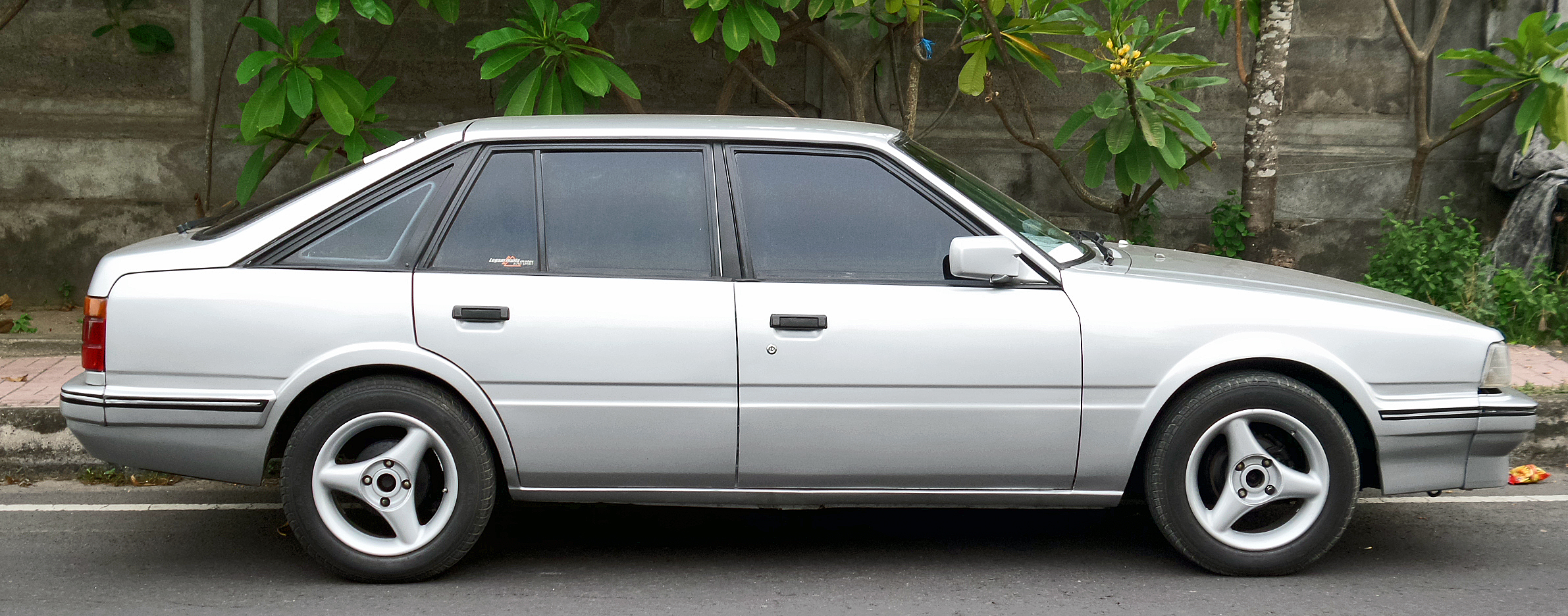 Profile view of Mazda 626 GLX hatchback (GC) photographed in Sukawati, Gianyar Regency, Bali, Indonesia. Getting even rare in Balinese street in 2015.